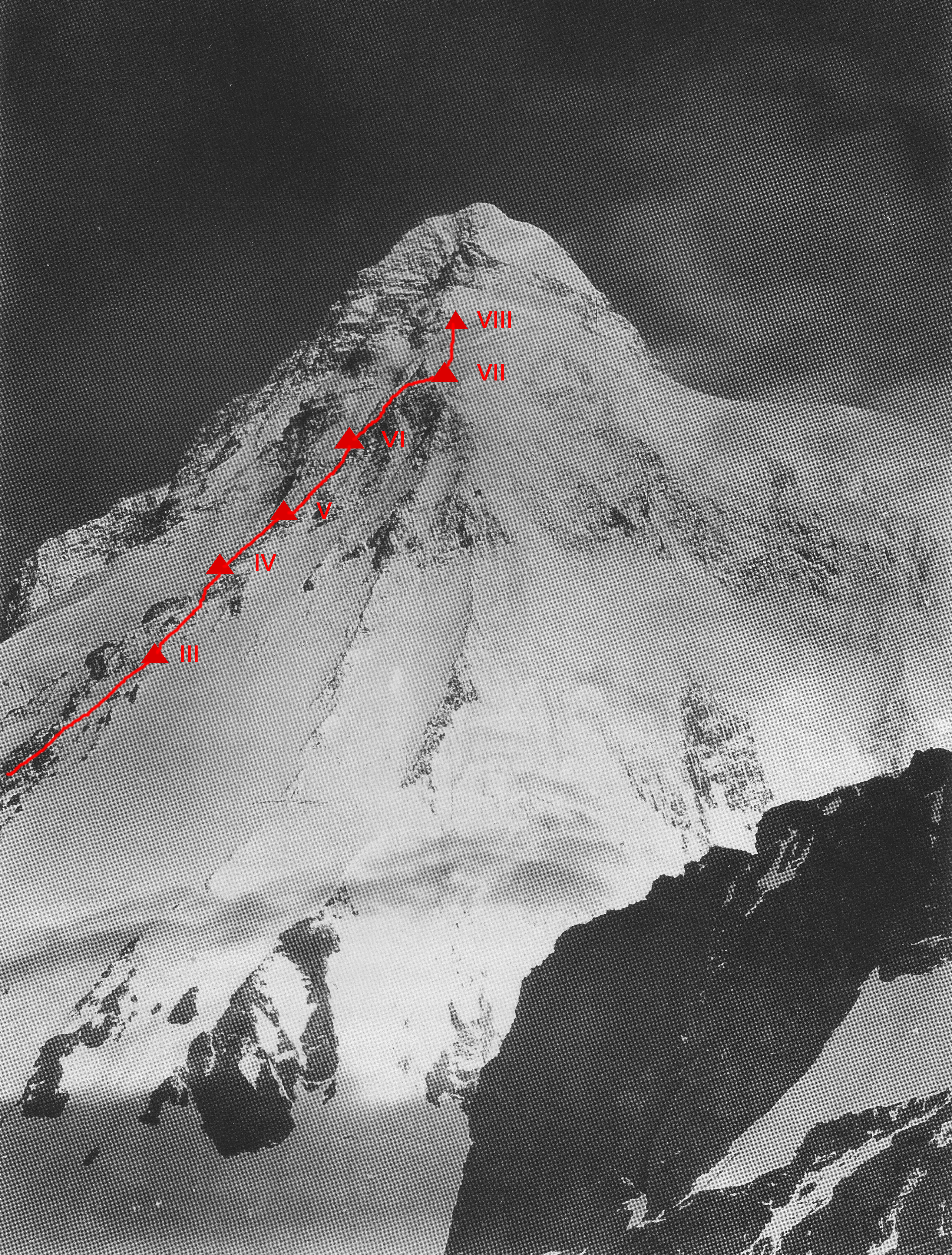 The route taken by the Third American Karakoram Expedition on K2 in 1953, showing the locations of Camps III-VIII